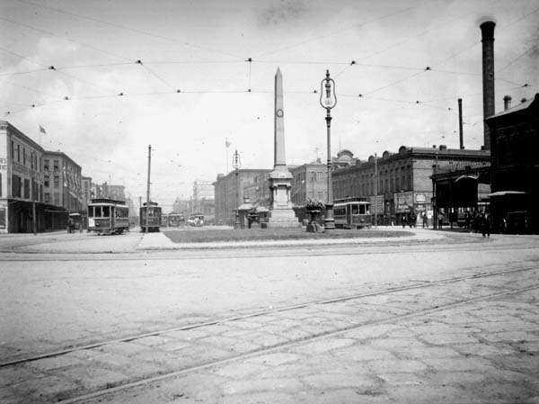 New Orleans, 1906 : Canal Street, looking lakewards from near Front Street, showing Liberty Place Monument and streetcars.